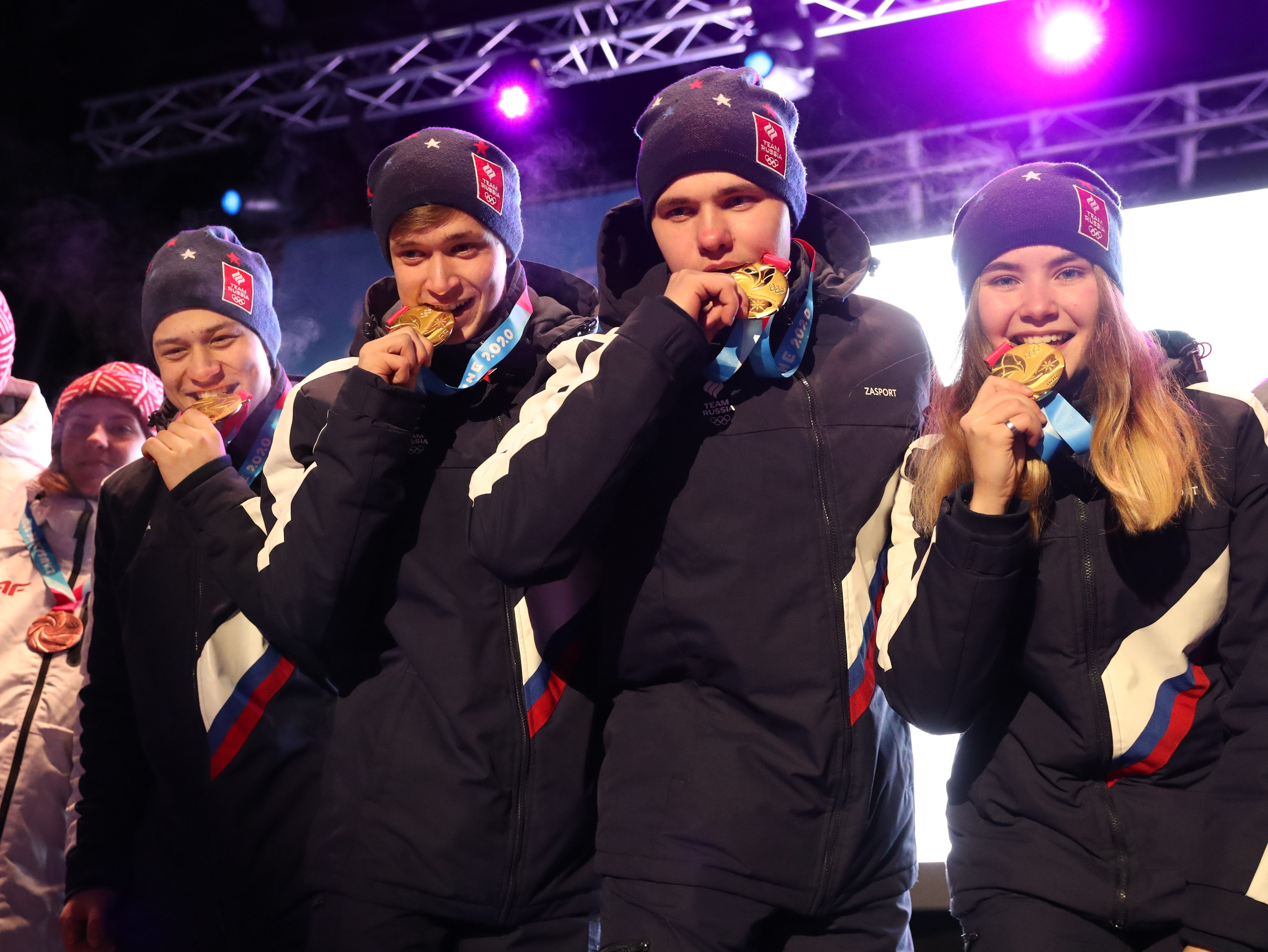 Medal Ceremony Day 11 in St. Moritz, 2020 Winter Youth Olympics in Lausanne